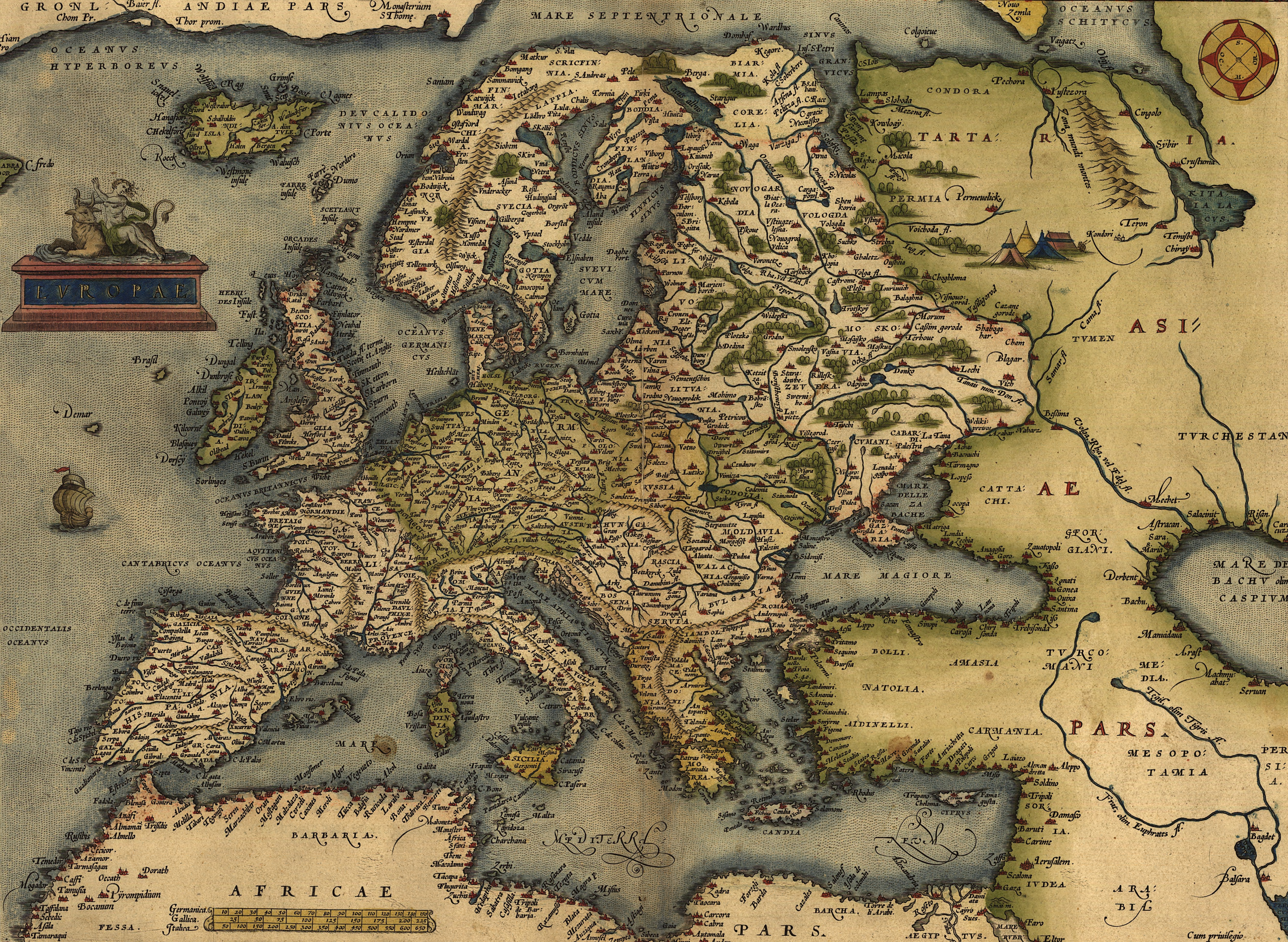 Map of Europe (Title:Europae)